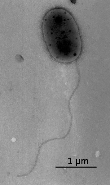 Transmission electron micrograph showing the general cell morphology of strain S2R03-9T Methylobacterium jeotgali